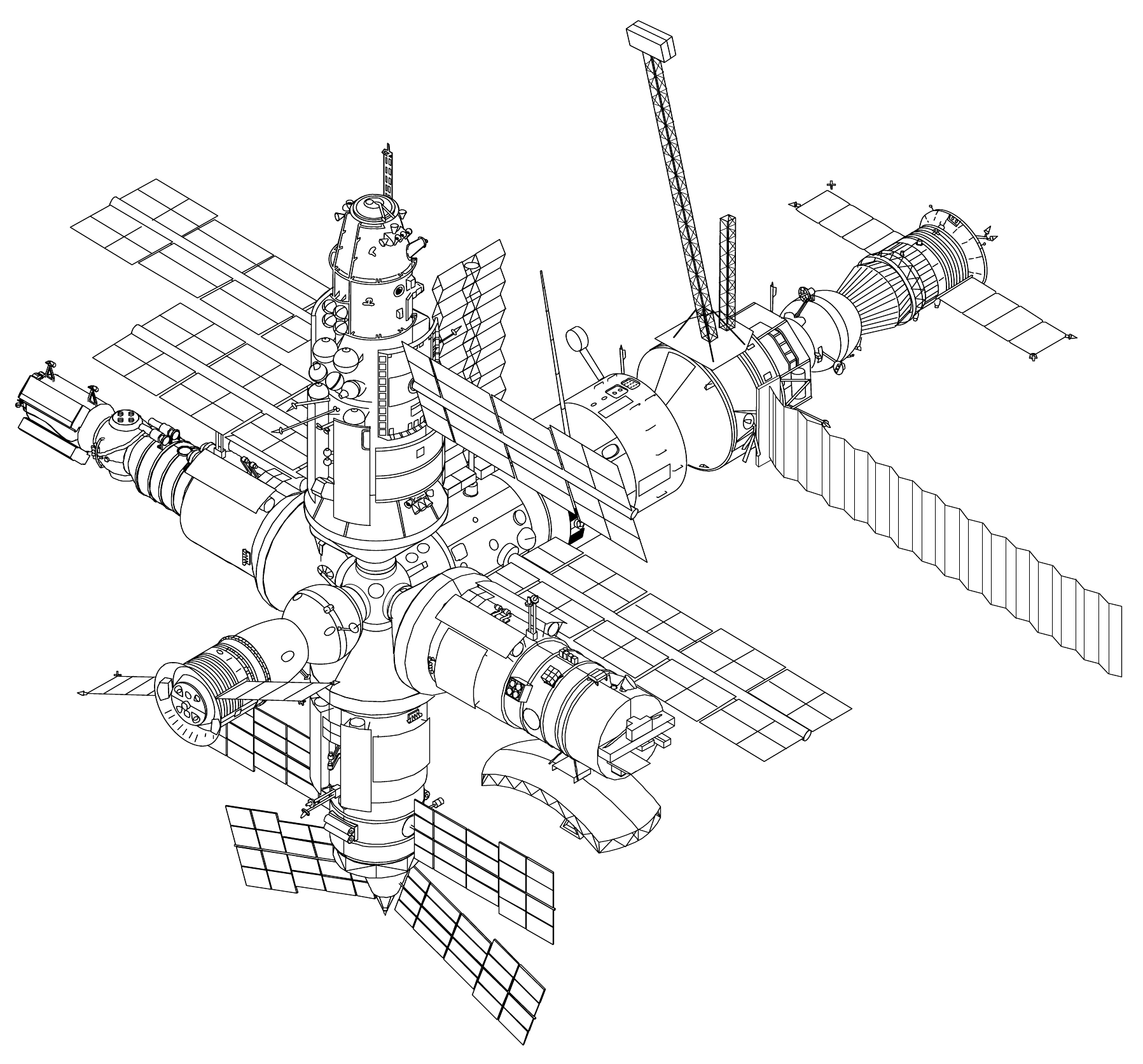 The Mir complex on May 7, 1996, with all base block ports occupied. Priroda had docked with the station initially on April 26 and subsequently had been relocated to the +Z port. Progress-M 31 docked at the -X port to complete the configuration.